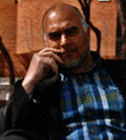 Autor